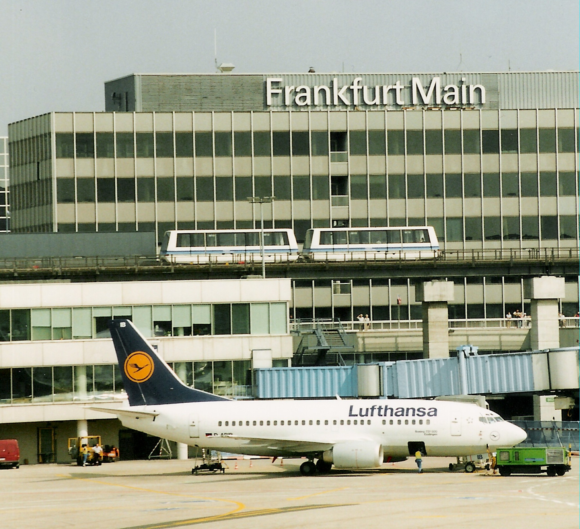 SkyLine train and Lufthansa Boeing 737-500 (D-ABIB) at Frankfurt Main airport. Photo taken by Michael Krahe, Summer 2002. Licensed under the GFDL.